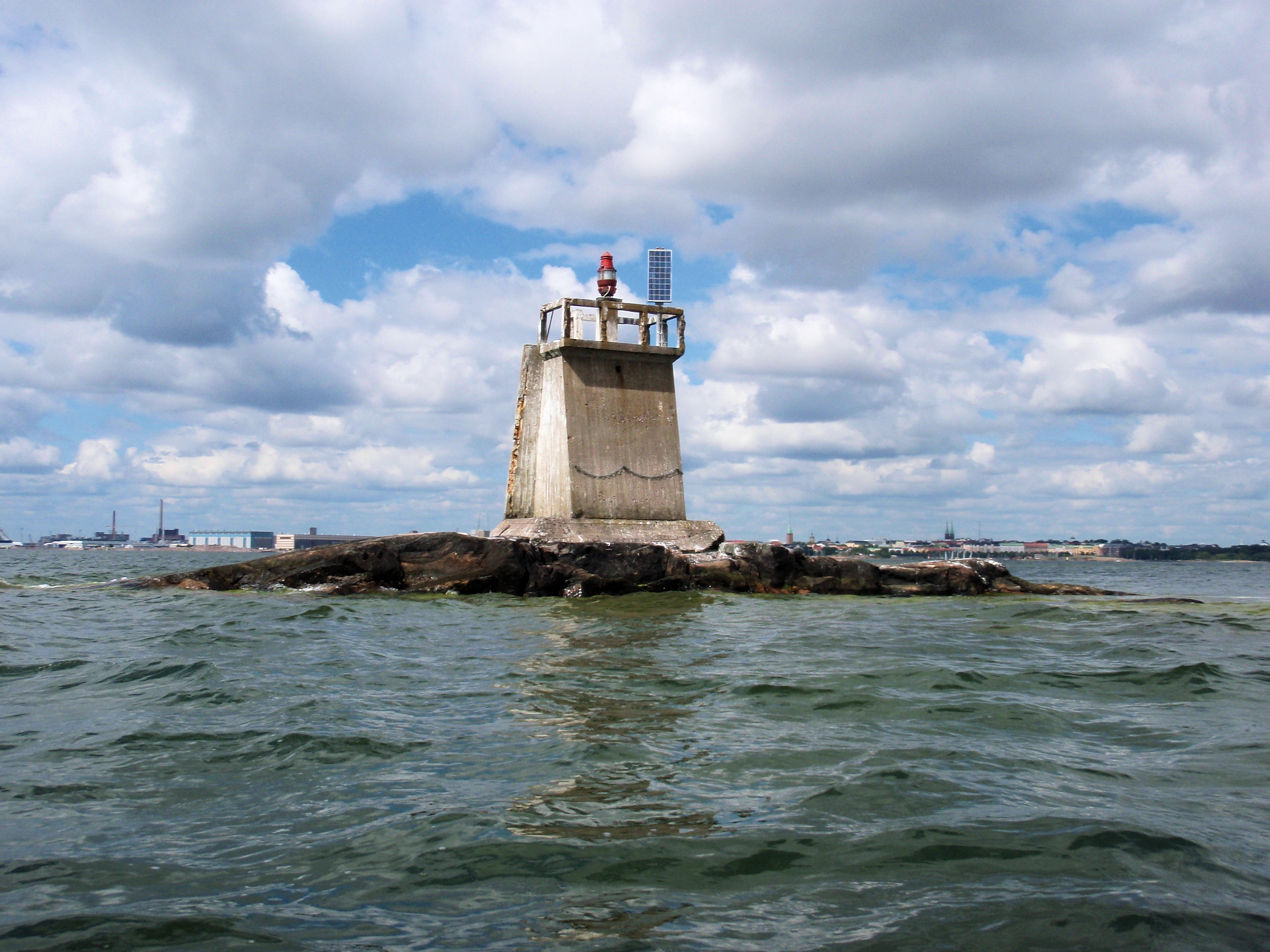 Lokkiluoto, a small lighthouse island outside Helsinki